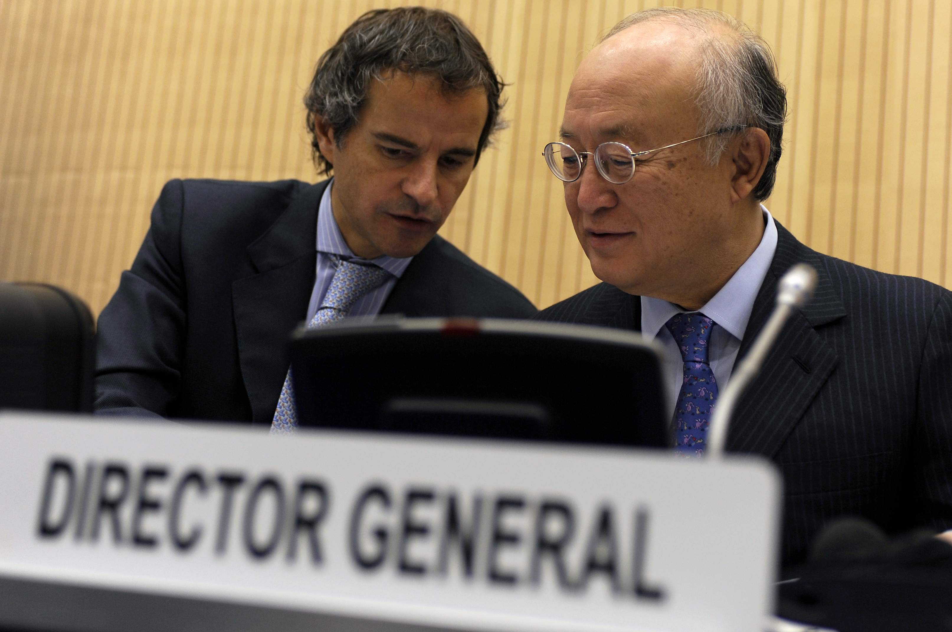 IAEA Forum on Experience of Possible Relevance to the Creation of a Nuclear-Weapon-Free Zone in the Middle East. Vienna, Austria, 21-22 November 2011